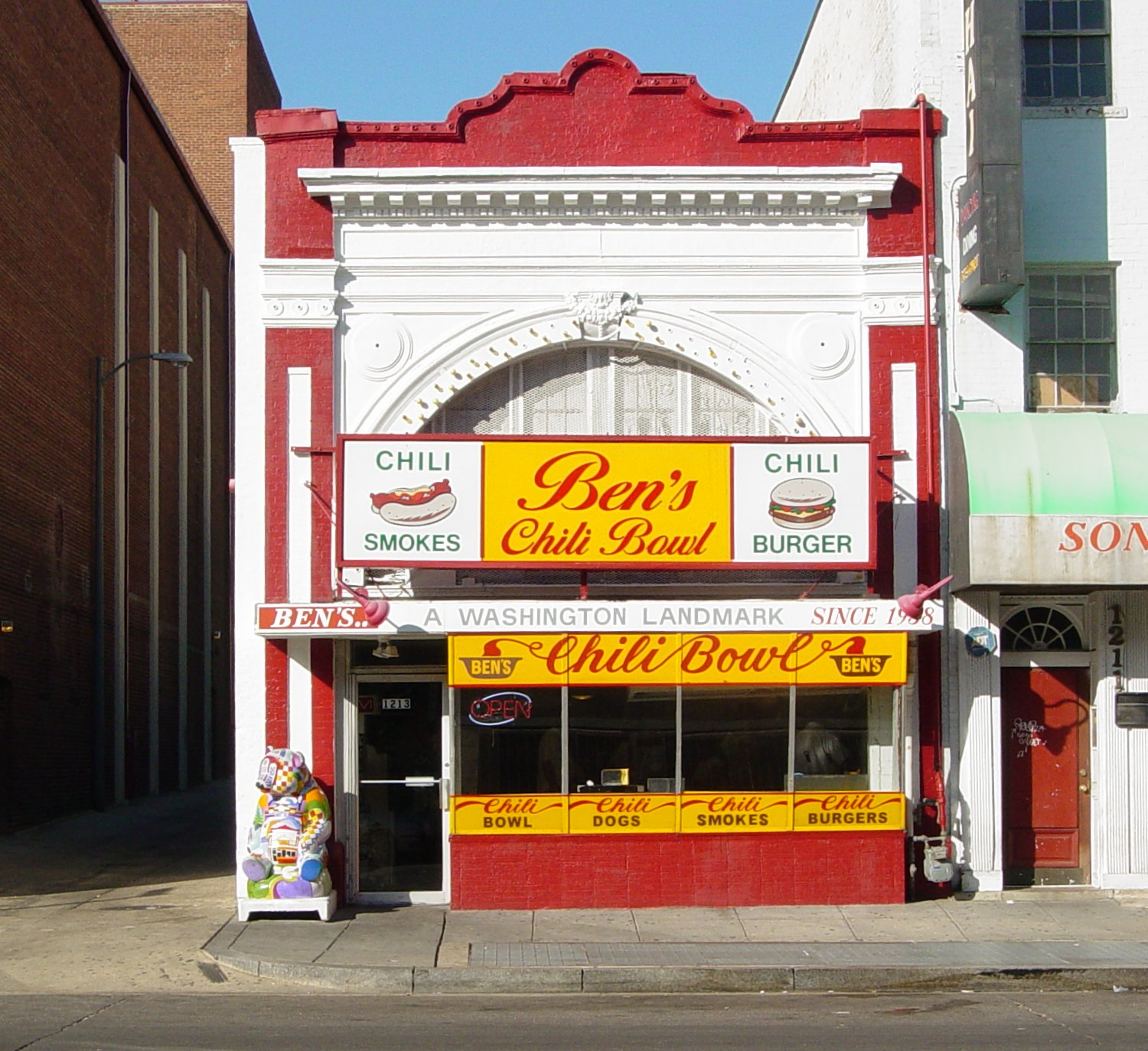 Ben's Chili Bowl, a restaurant on U Street NW in Washington DC. Photo by Ben Schumin on October 26, 2006.